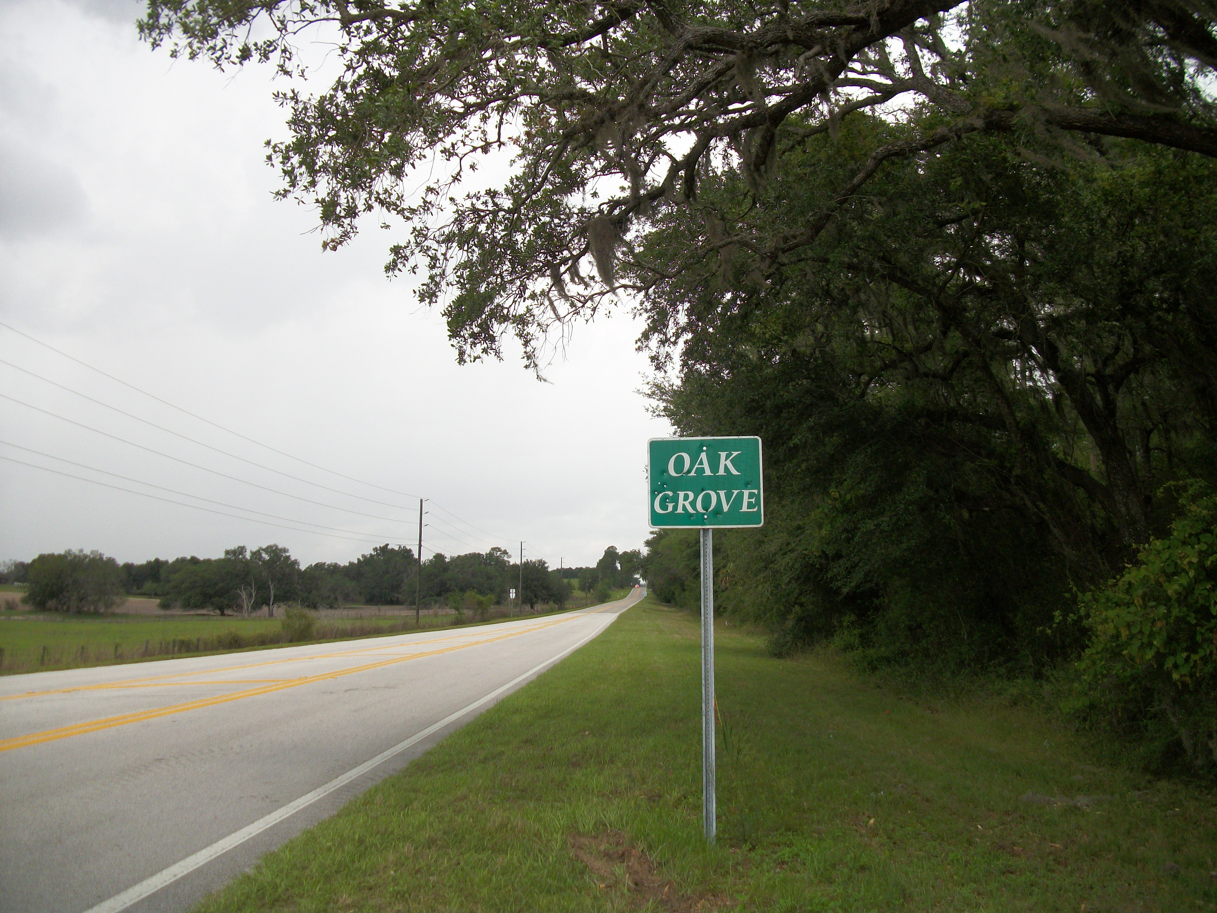 Northbound Citrus County Road 491 north of the intersection of Citrus County Road 480 in Oak Grove, Florida. Just another attempt to prove that rural communities like this exist, and for the record there are other "Oak Groves" in other counties in Florida.